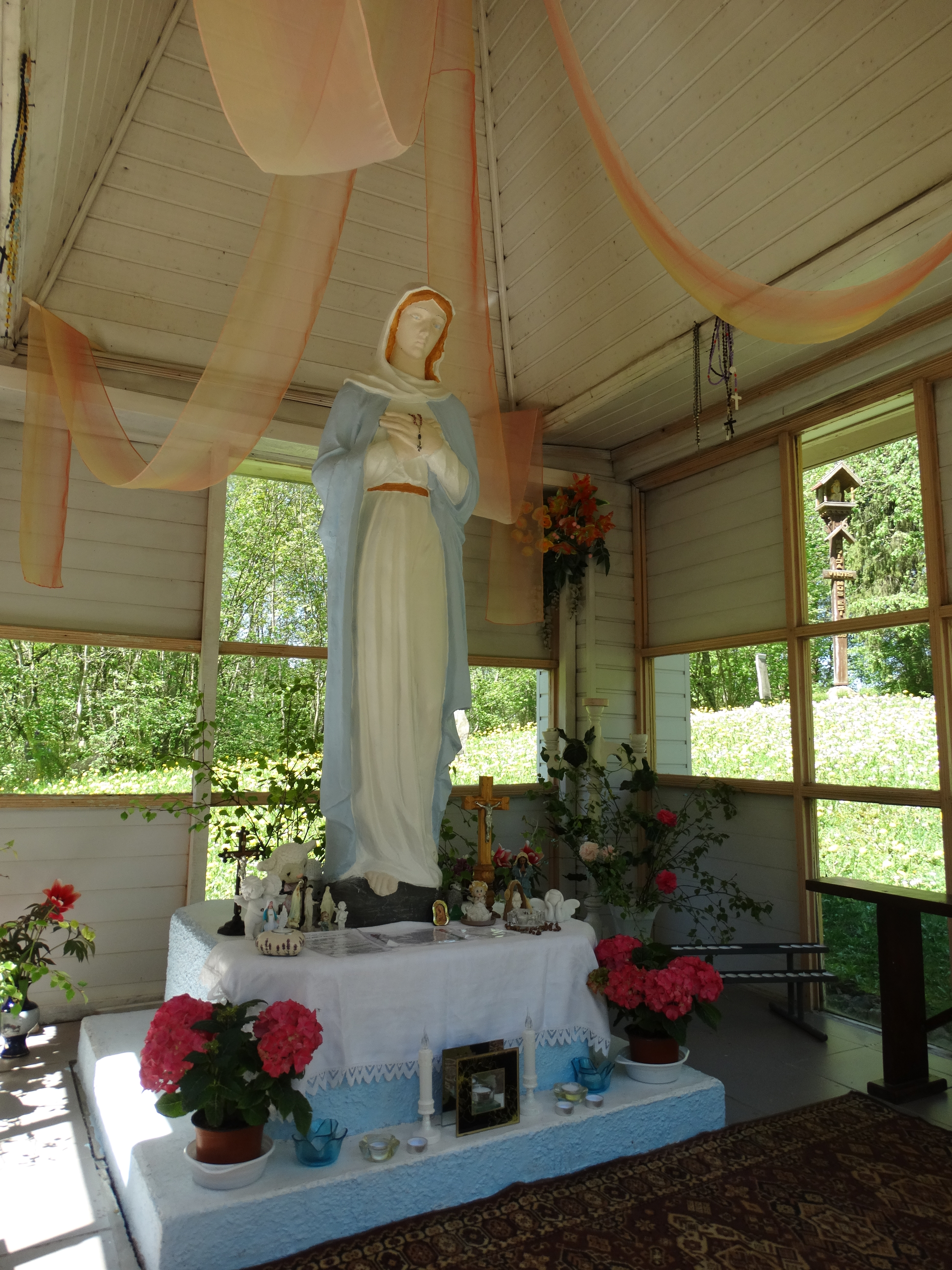 Chapel in Skudutiškis, Molėtai district, Lithuania